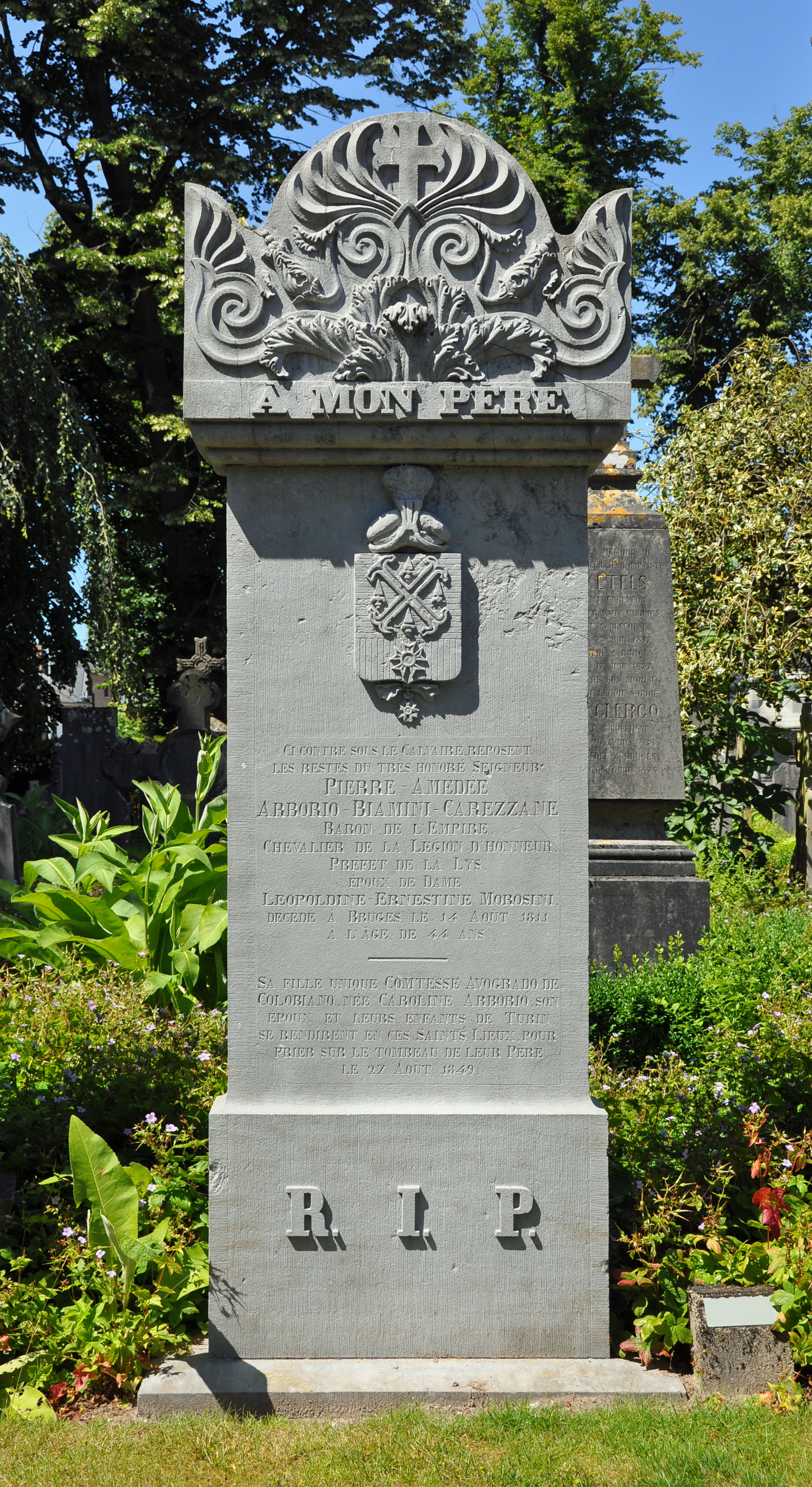 Bruges (Belgium), Municipal Cemetery: cenotaph of Pietro Arborio (1767-1811), préfet of the département de la Lys from 1810 to 1811